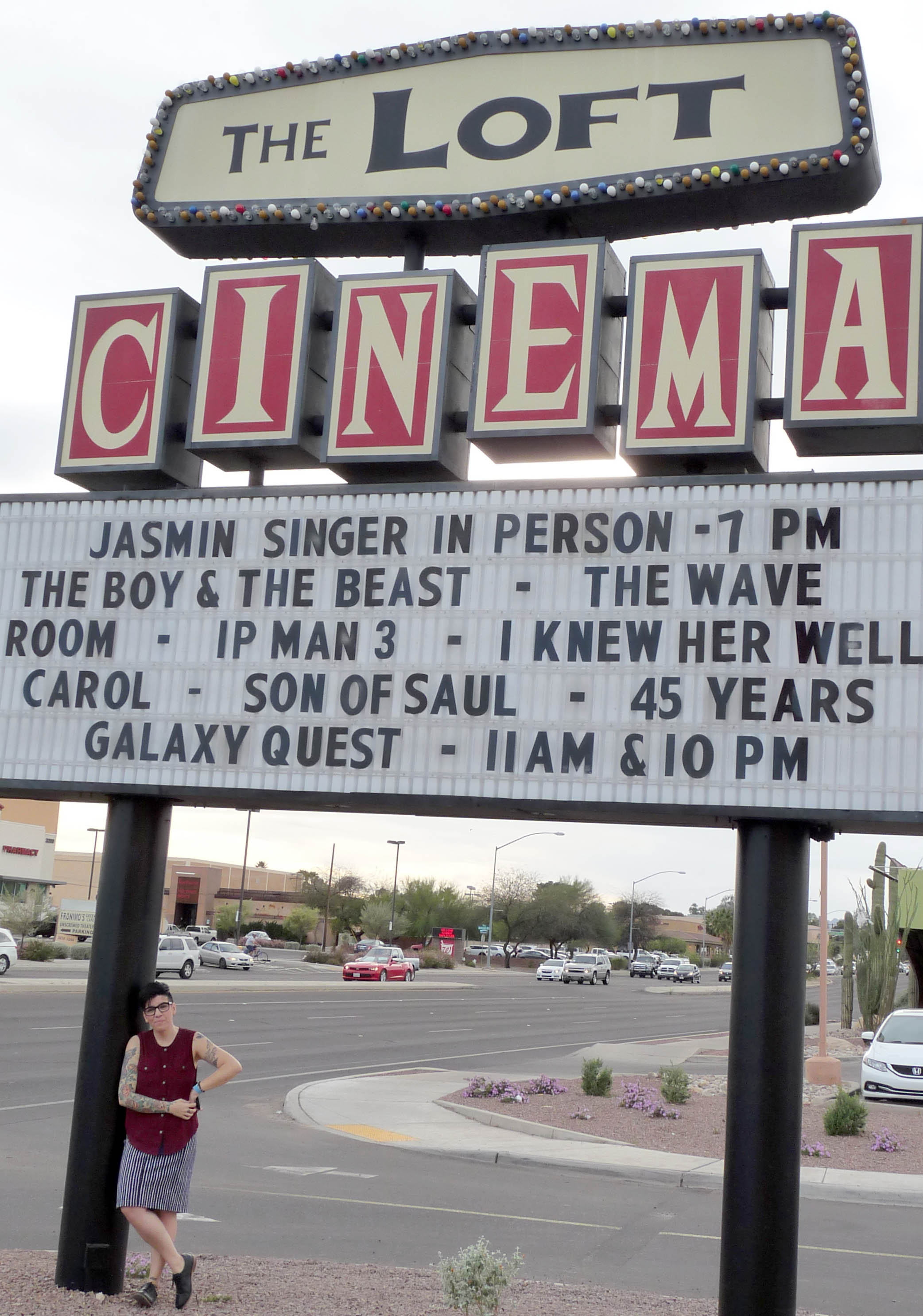 Jasmin Singer at the Loft Theater in Tucson, AZ